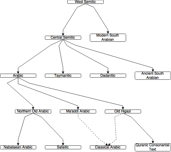 Classification of the ancient written languages of the Arabian peninsula, with the inclusion of Classical Arabic and Modern South Arabian for reference